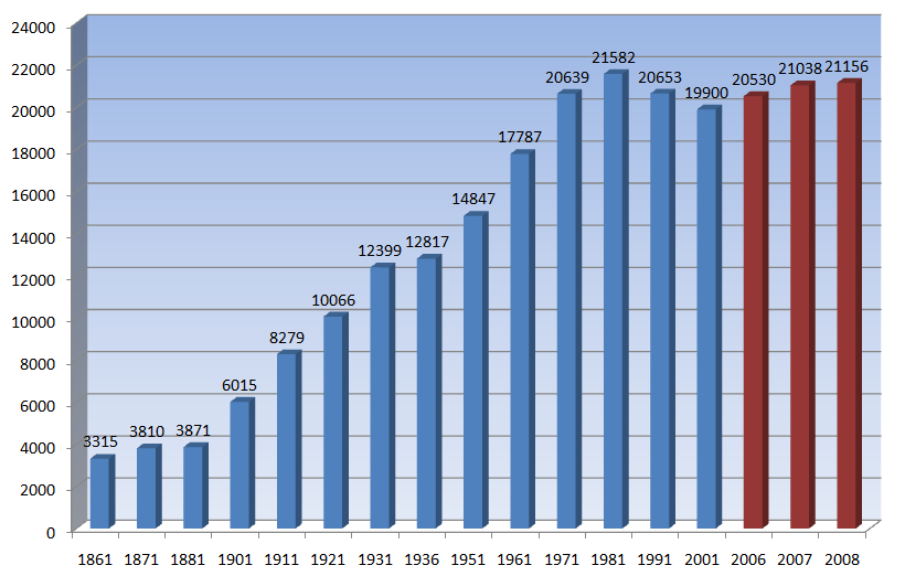 Montecatini Terme's population (1861-2008). Based on ISTAT data.